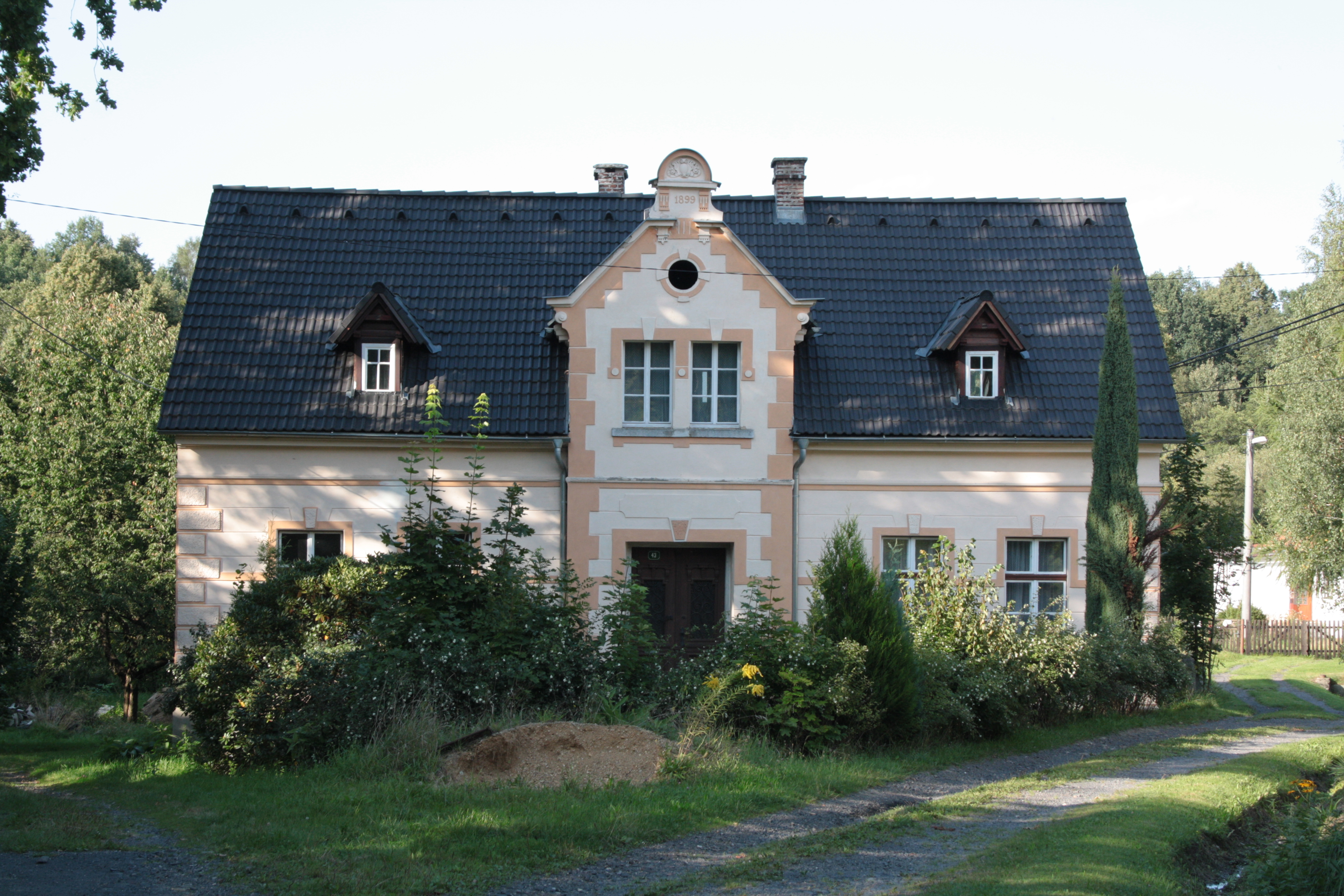 This photograph was taken with a DSLR from WMCZ's Camera grant. Dům evidenční číslo 43 v Háji u Habartic.